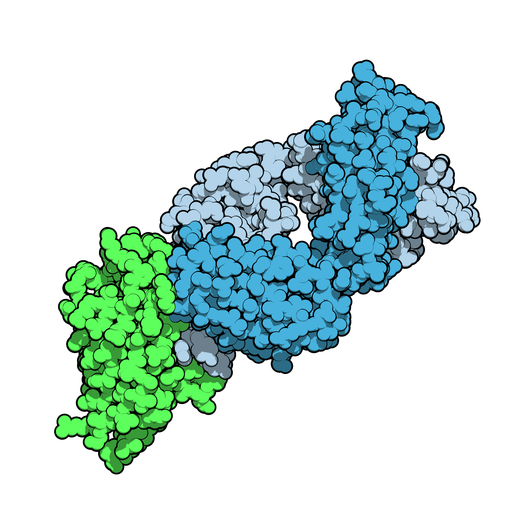 Space-filling model of the Fab fragment of the monoclonal antibody tremelimumab (blue) bound to its target, CTLA-4 (green). Style made to resemble the Protein Data Bank's "Molecule of the Month" series, illustrated by Dr. David S. Goodsell of the Scripps Research Institute. Created using QuteMol ( Optimized with OptiPNG.